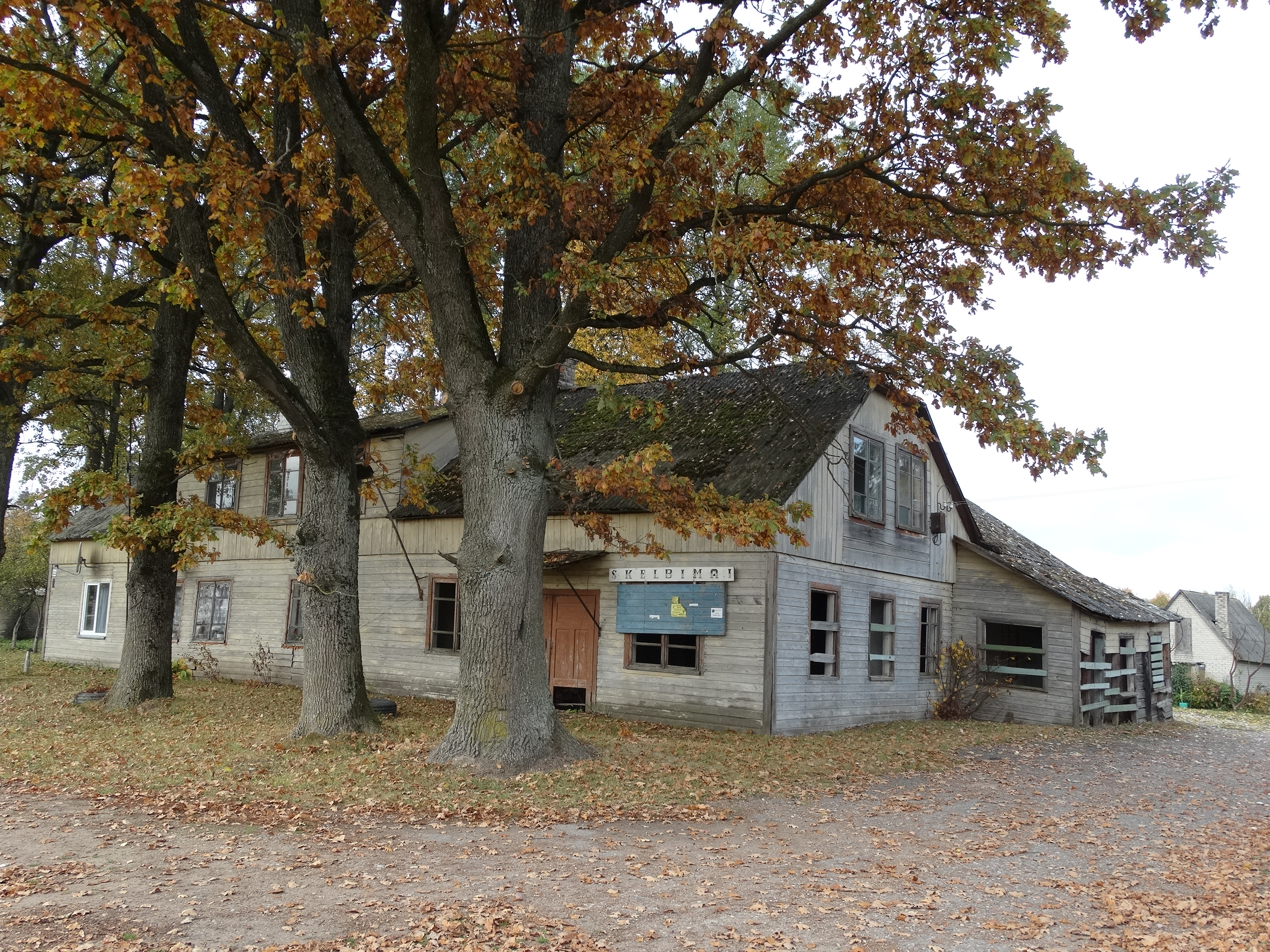 Gotlybiškiai, Šakiai District, Lithuania